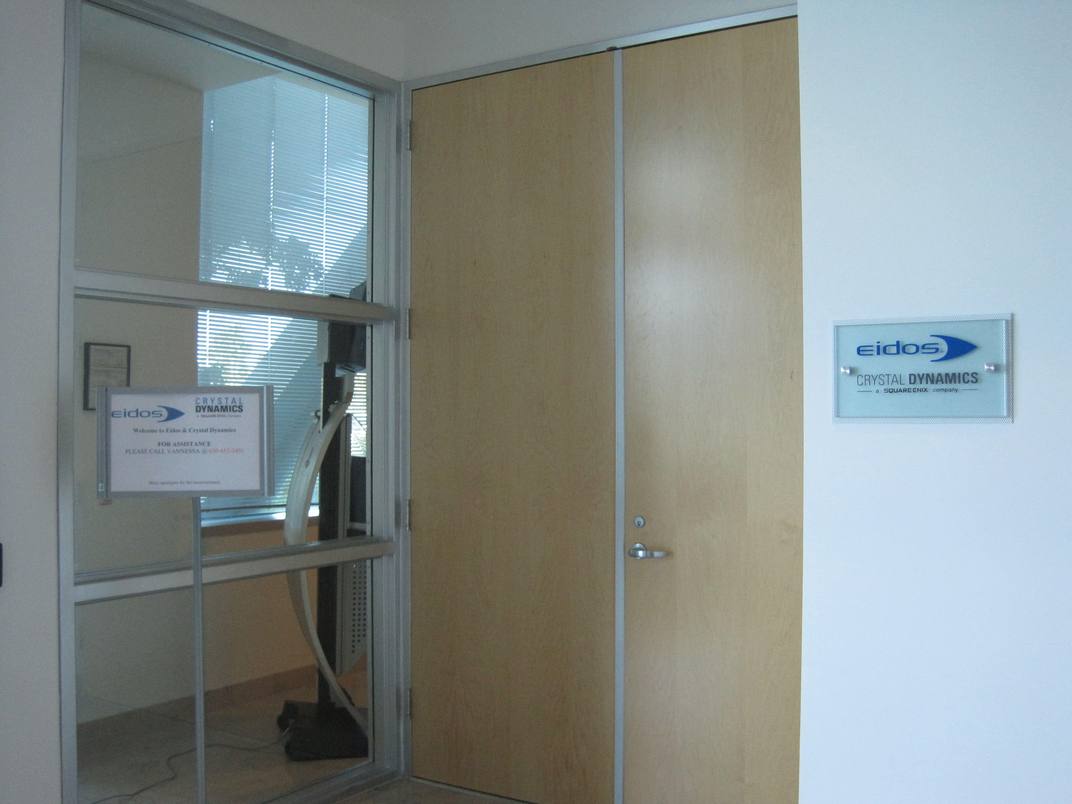 The guest entrance to the headquarters of Crystal Dynamics at 1300 Seaport Boulevard, in Redwood City, California.